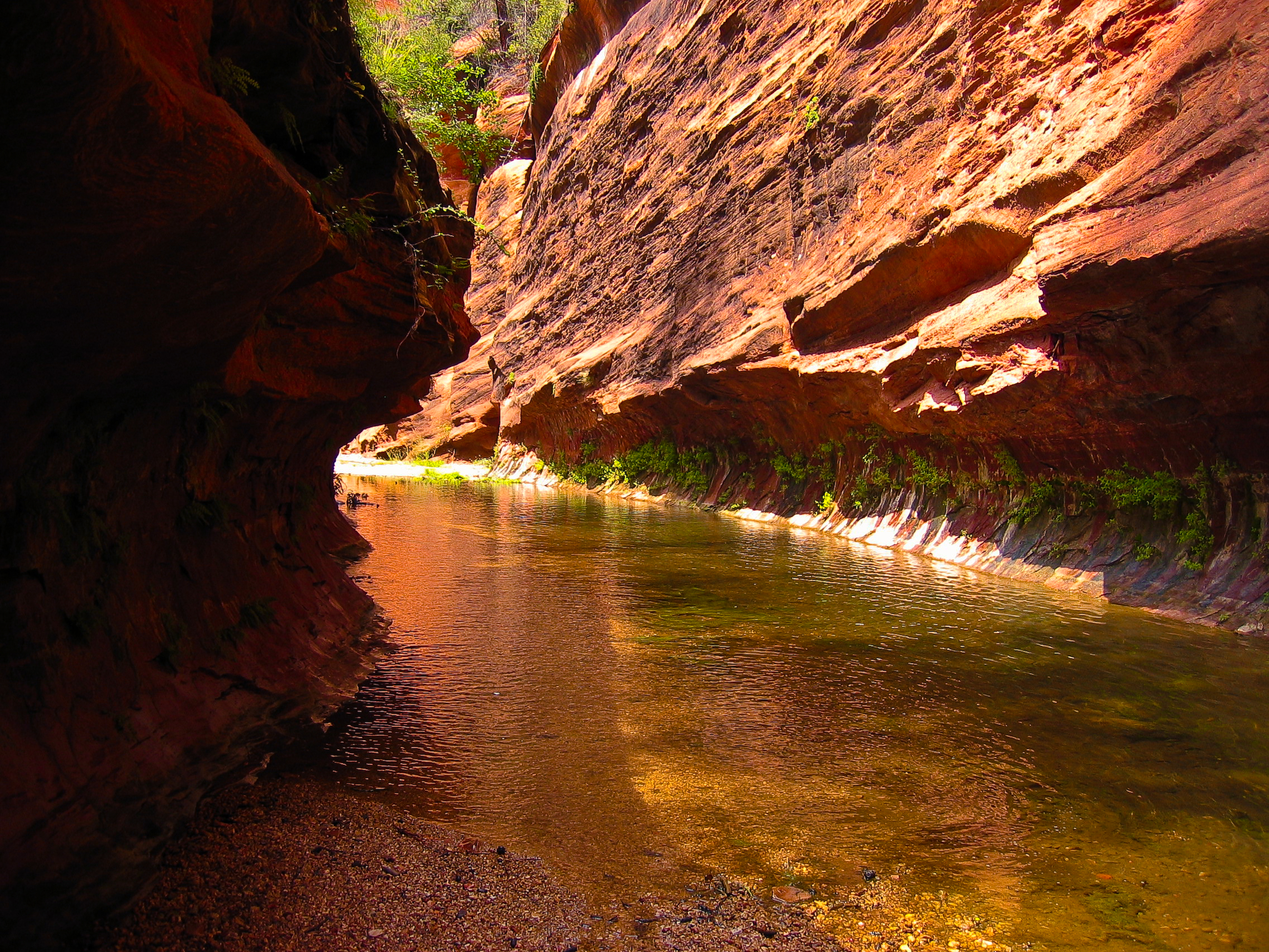 West Fork Trail in Oak Creek Canyon, Sedona. Taken on 8-9-06 by Mark Chavez. For more information on West Fork Trail, visit Credit: U.S. Forest Service, Coconino National Forest.